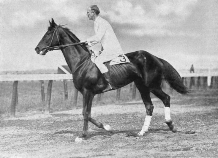 George S. Patton riding his steeplechase horse Wooltex in 1914. Wooltex (foaled in 1909) was the younger full brother of the 1910 Kentucky Derby winner Donau.